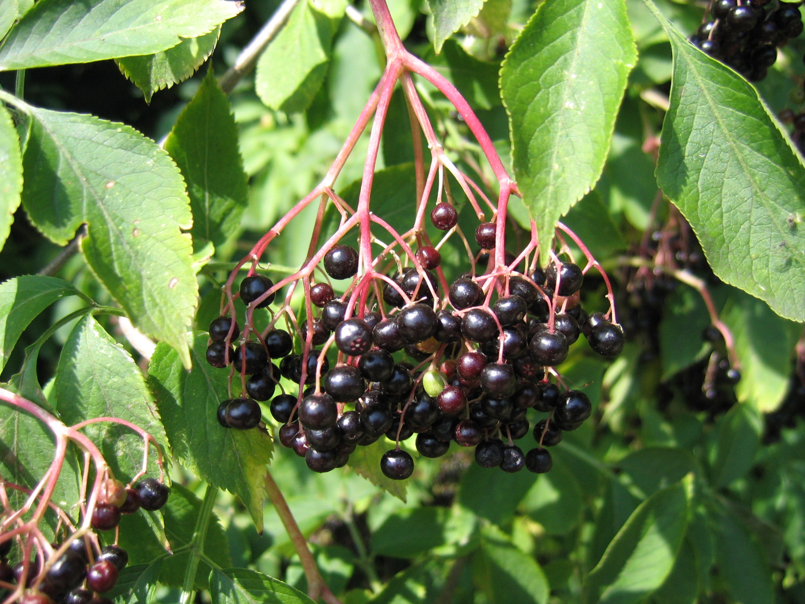 Sambucus nigra fruits in August, Wrocław, Poland.